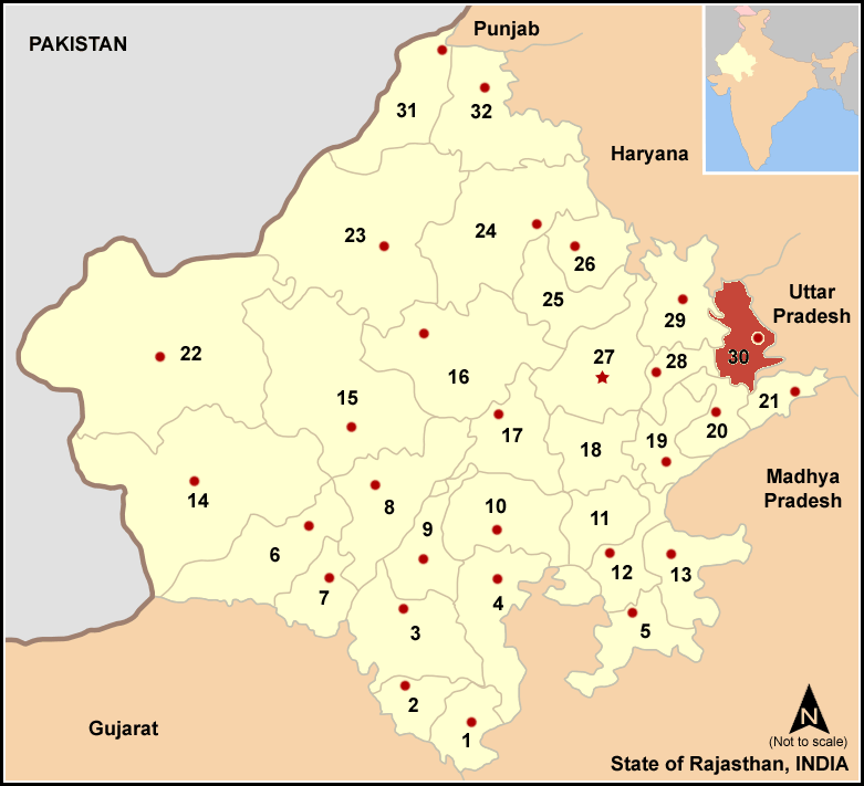 district of Rajasthan